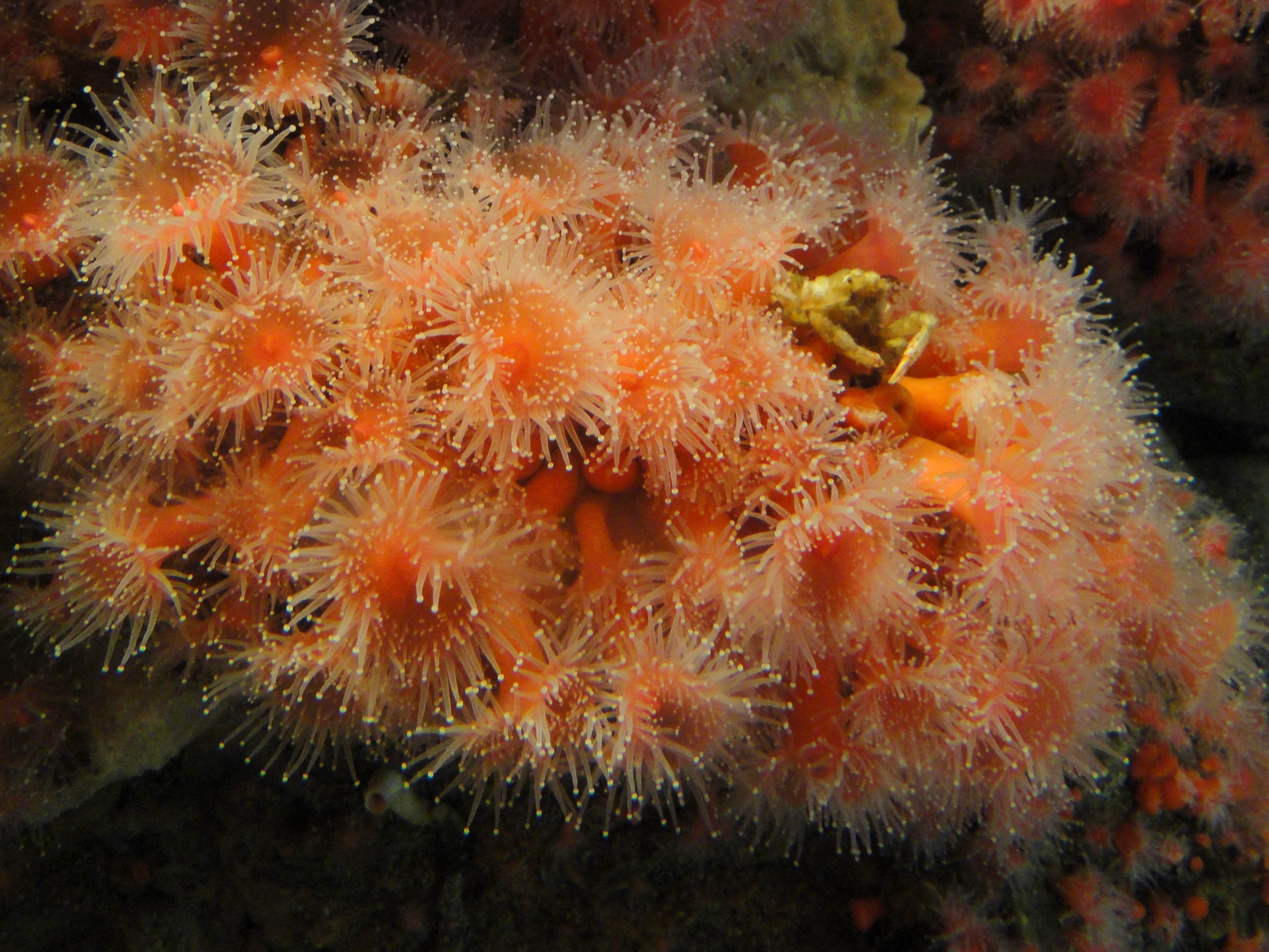 Exhibit in the Monterey Bay Aquarium, Monterey County, California, USA.